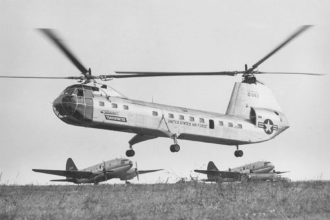 The U.S. Air Force prototype Piasecki YH-16-PH Transporter helicopter (s/n 50-1269), with a twin-rotor design had provisions for up to 43 troops. The development of this transport and rescue helicopter was accelerated in response to the Korean War. Two C-46s are in the background. The program was abandoned after the crash of the second prototype.